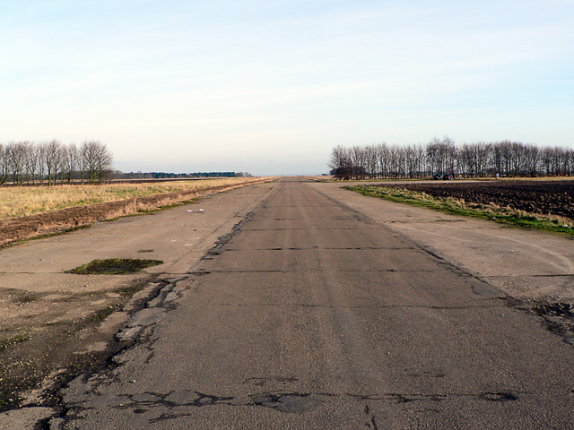 Former RAF Metheringham. The old Southwest/Northeast runway is now a minor road over Blankney Barff and down to the fens. Looking northeast.